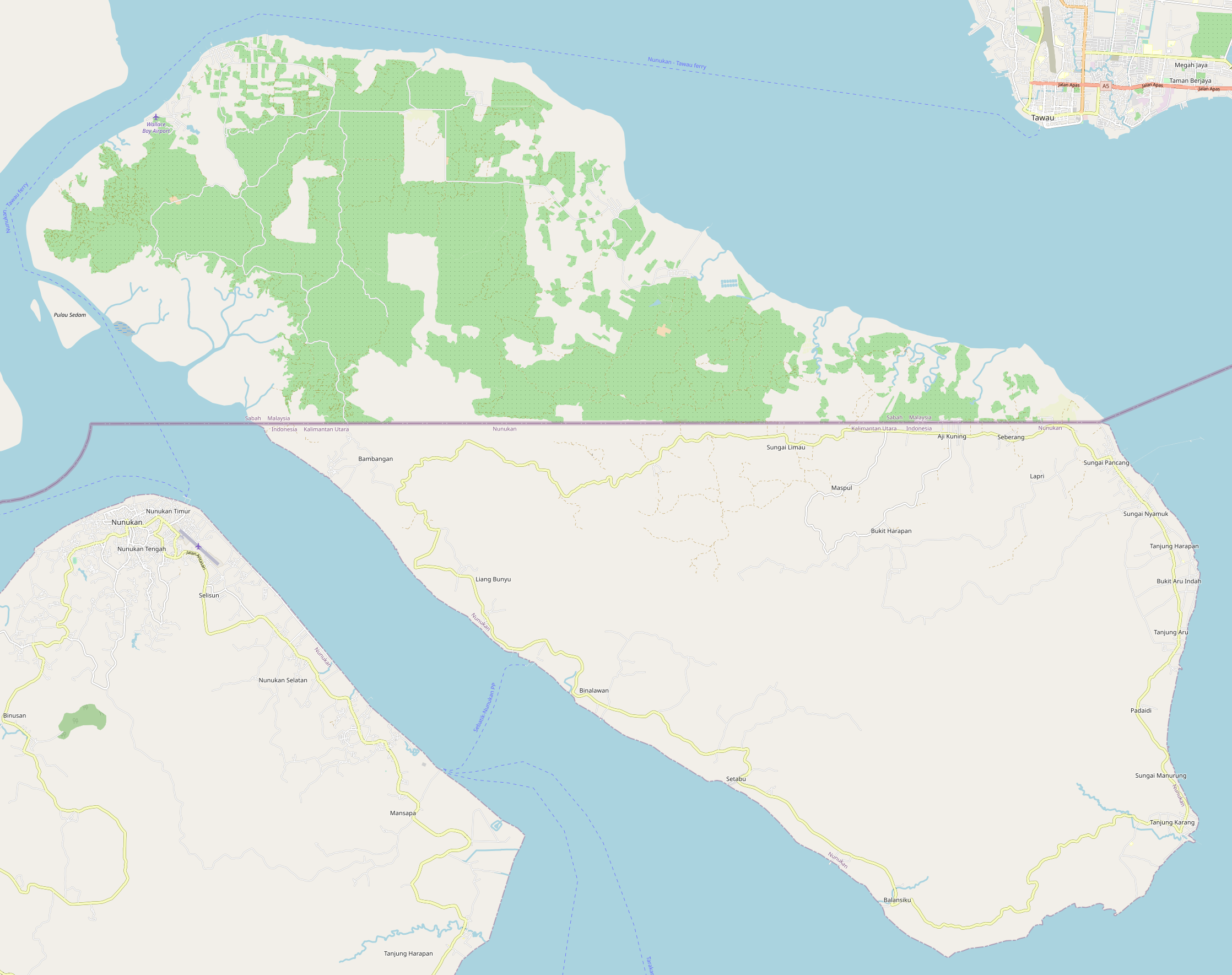 This map may be incomplete, and may contain errors. Don't rely solely on it for navigation.